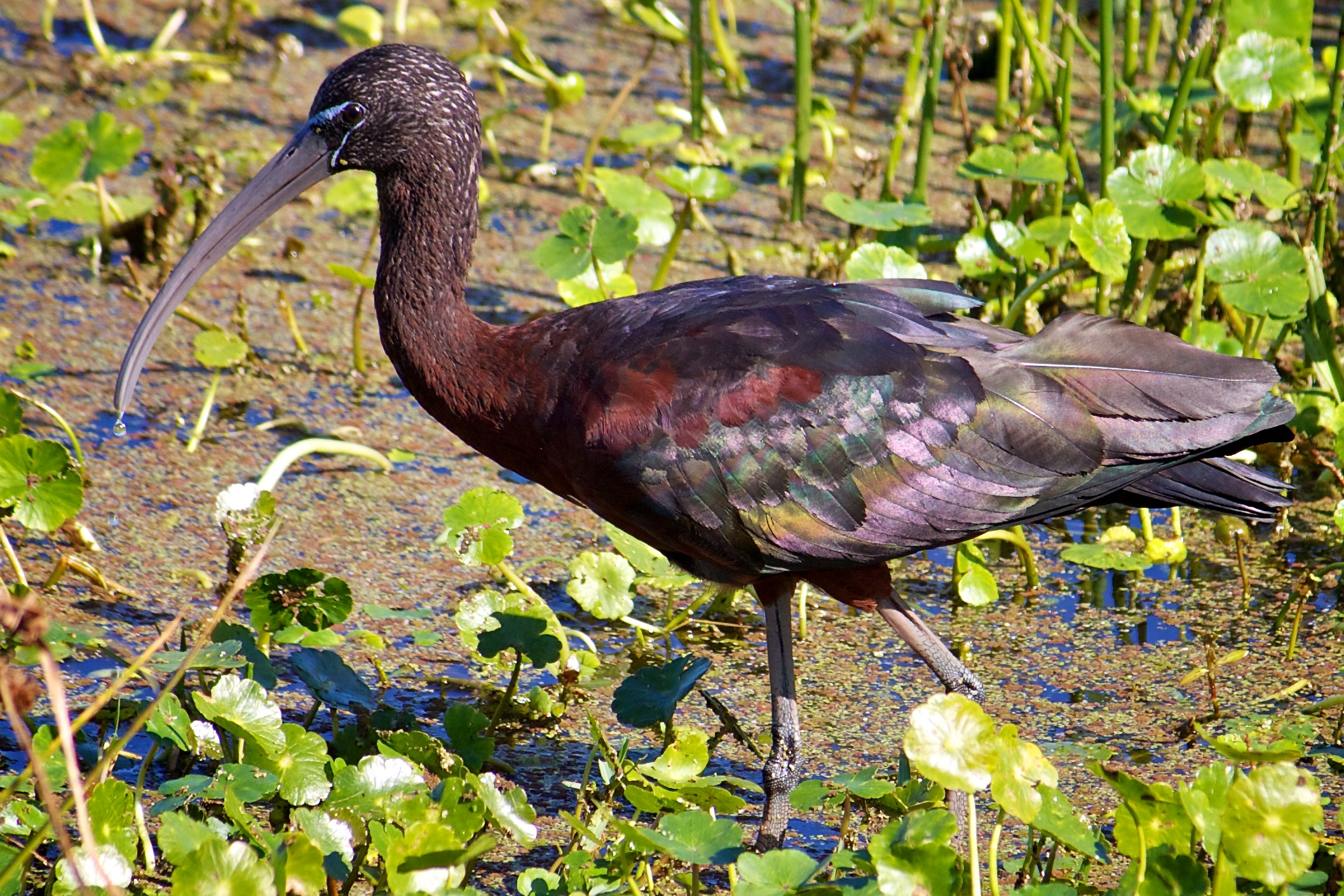 Glossy Ibis (Plegadis falcinellus) at Pelican Island National Wildlife Refuge Credit: Keenan Adams (USFWS)